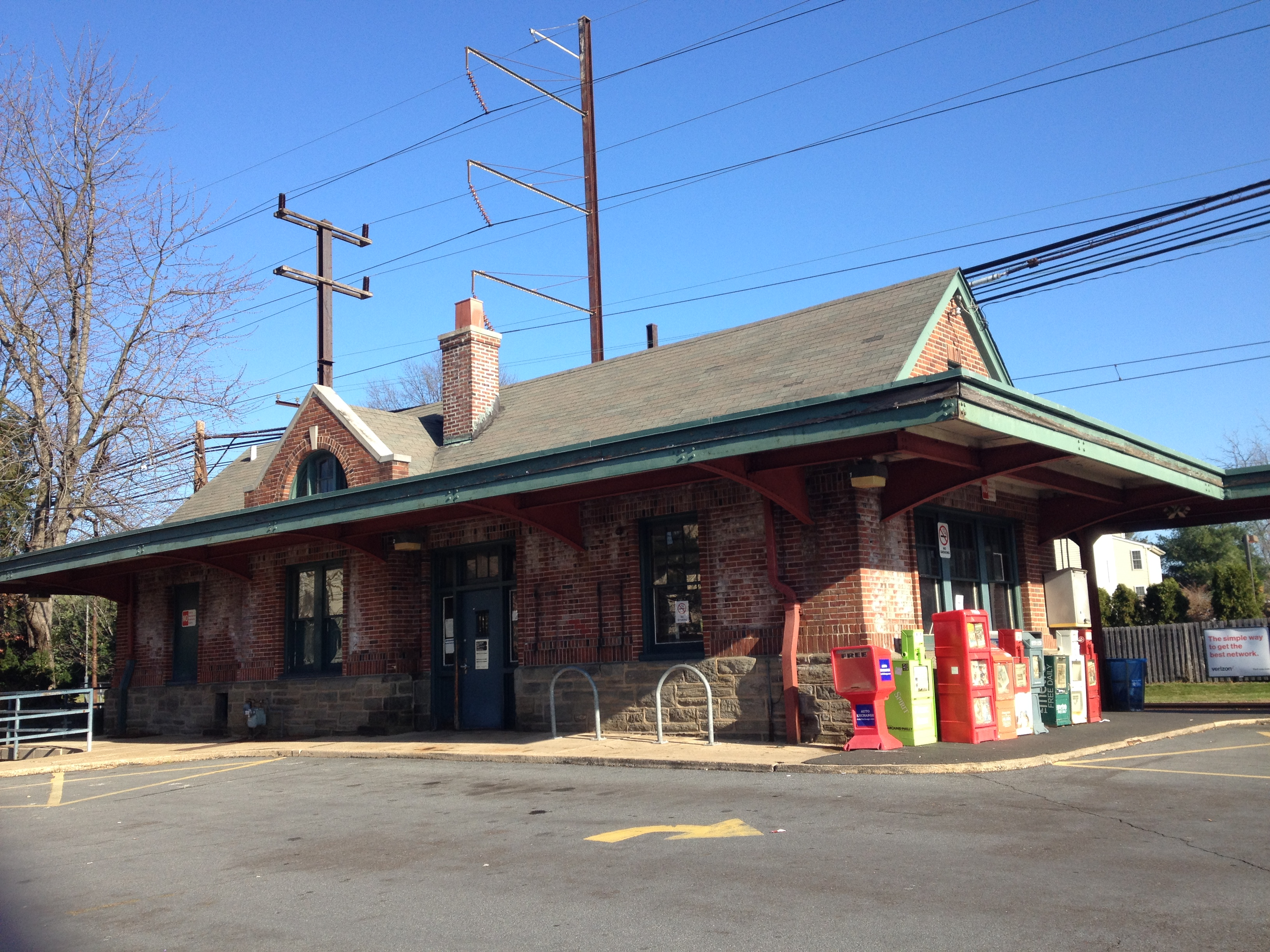 The Hatboro Station along SEPTA's Warminster Line in Hatboro, Pennsylvania.